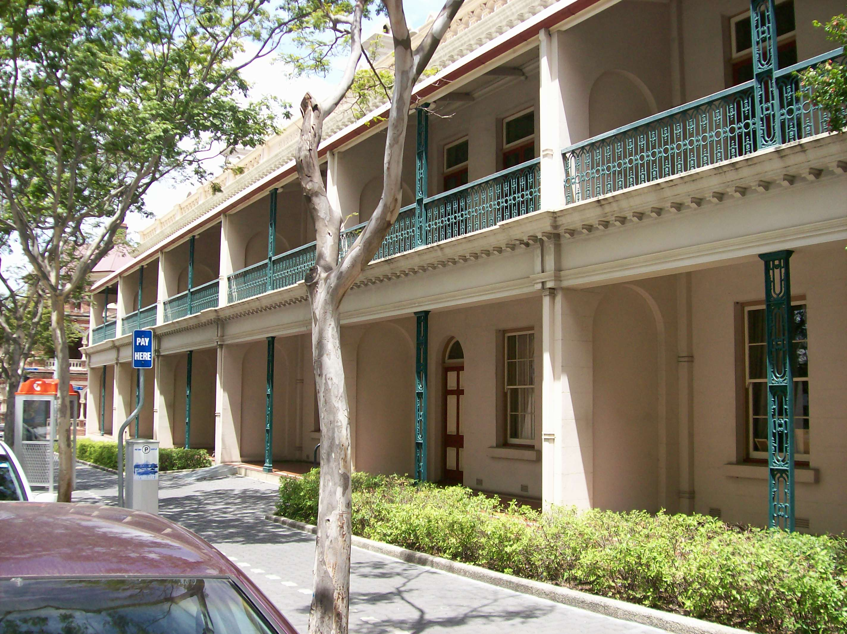 Taken by Michael Gardner, October 2007